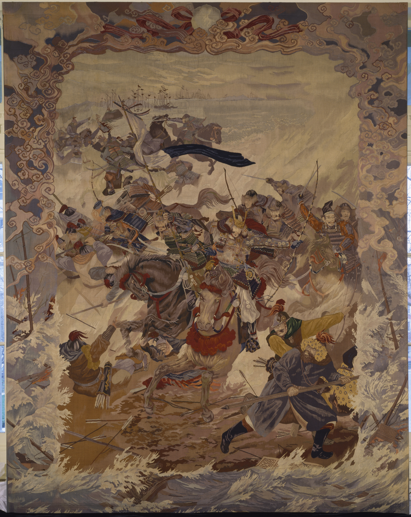 The Mongols invaded Japan twice, in 1274 and 1281, and twice they were repulsed with the help of a sudden typhoon (a kamikaze or "divine wind"). Kawasaki Jimbei II began to produced large-scale silk tapestries following his visit to France in 1886. This tapestry was based on a full-size oil painting by Morizumo Yugyo (1854-1927).